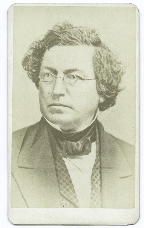 American academic Cornelius Conway Felton, presumably from a carte de visite.